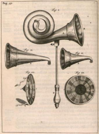 Ear Trumpet Frederick Dekkers 18th Century